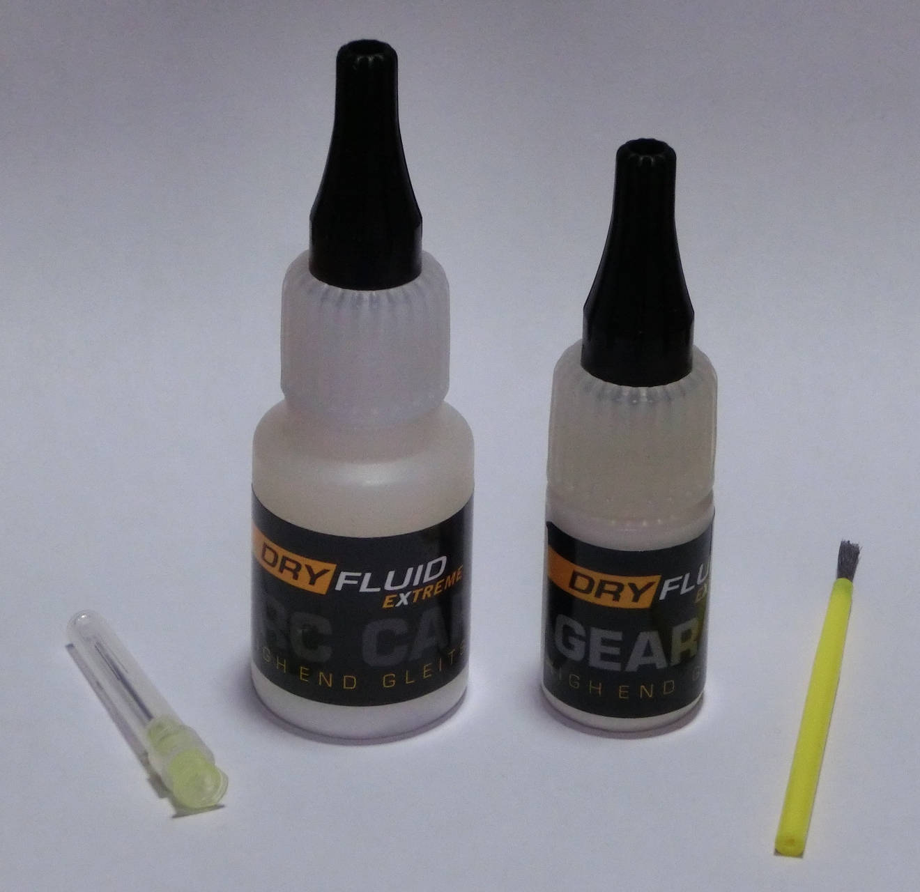 Dry fluid (left for ball bearing, right for gear)